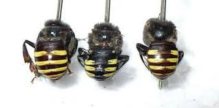 Abelhas Mandaçaia Quadrifasciata – MQQ, MQA, Mestiça